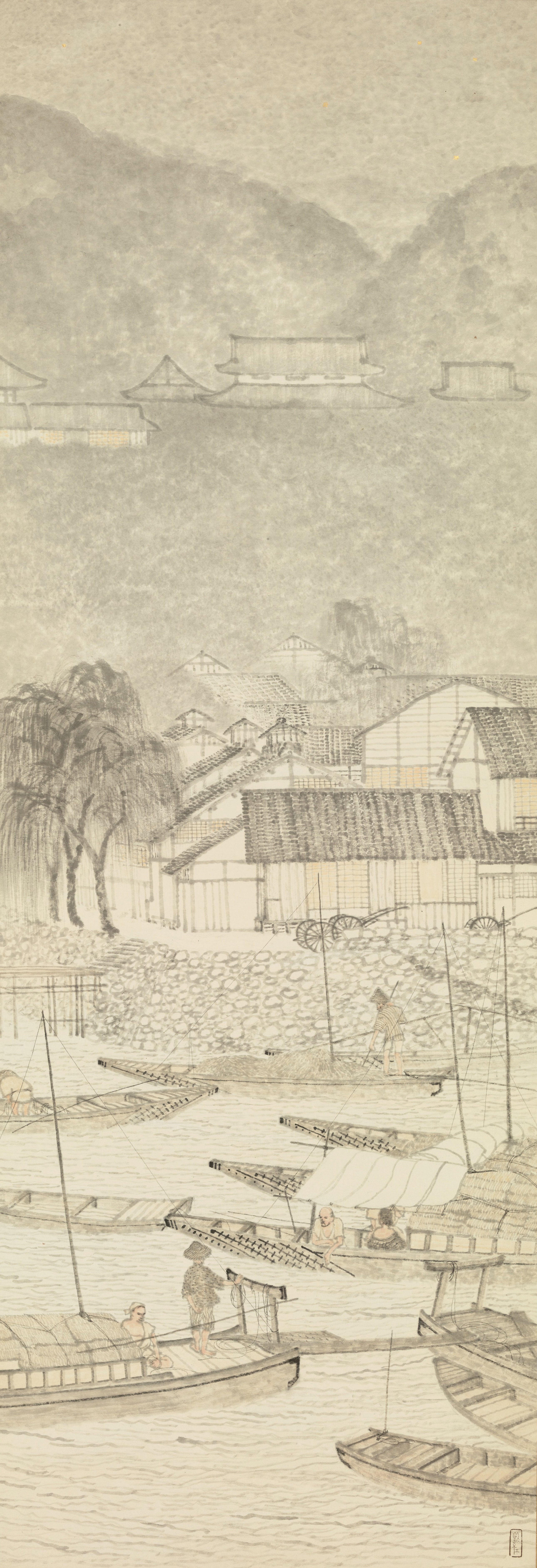 Eight Famous Sights of Omi, by Imamura Shiko, Tokyo National Museum, Japan